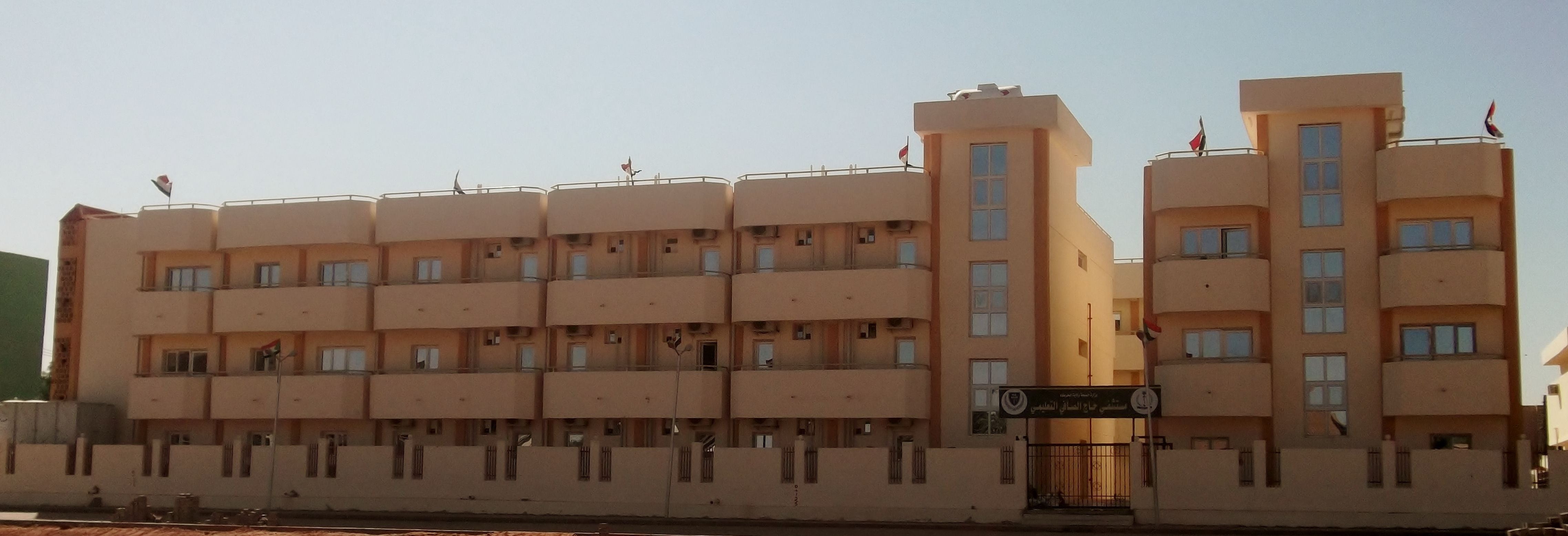 Al safia– Khartoum Bahri – Sudan